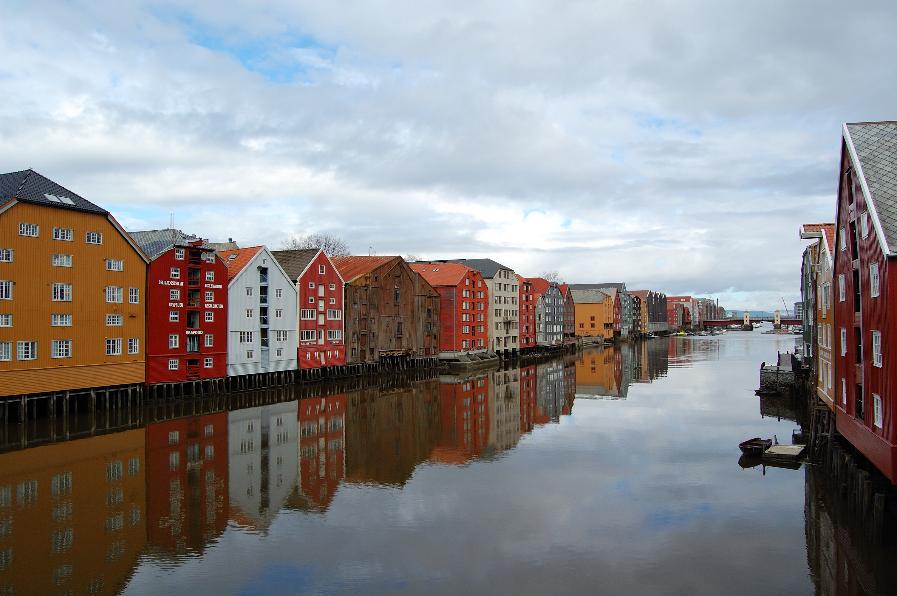 Old warehouses situated on the waterfront of Nidelva river in Trondheim, Norway.